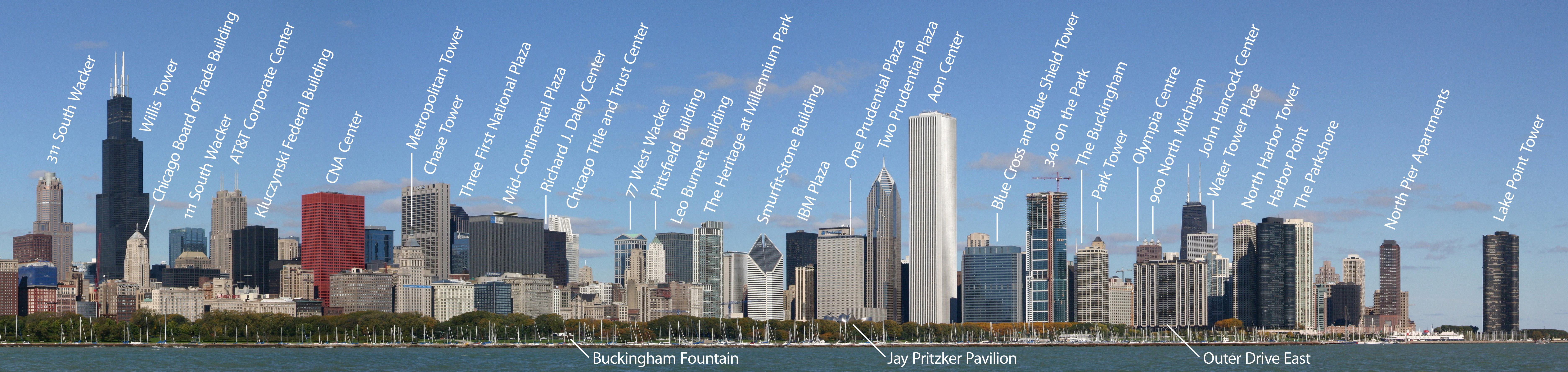 This is an edit of Chicago_Skyline_Hi-Res.jpg adding the building identifications from Chicago_Skyline_Crop_Labeled_2560_ver2.jpg with a few changes and additions. Also, since this is based on the original, it's larger and doesn't have the artifacting and smudges introduced in the other edits. If this is to be used with Template:Chicago skyline, the image map must be edited, as this version has different dimensions and cropping.